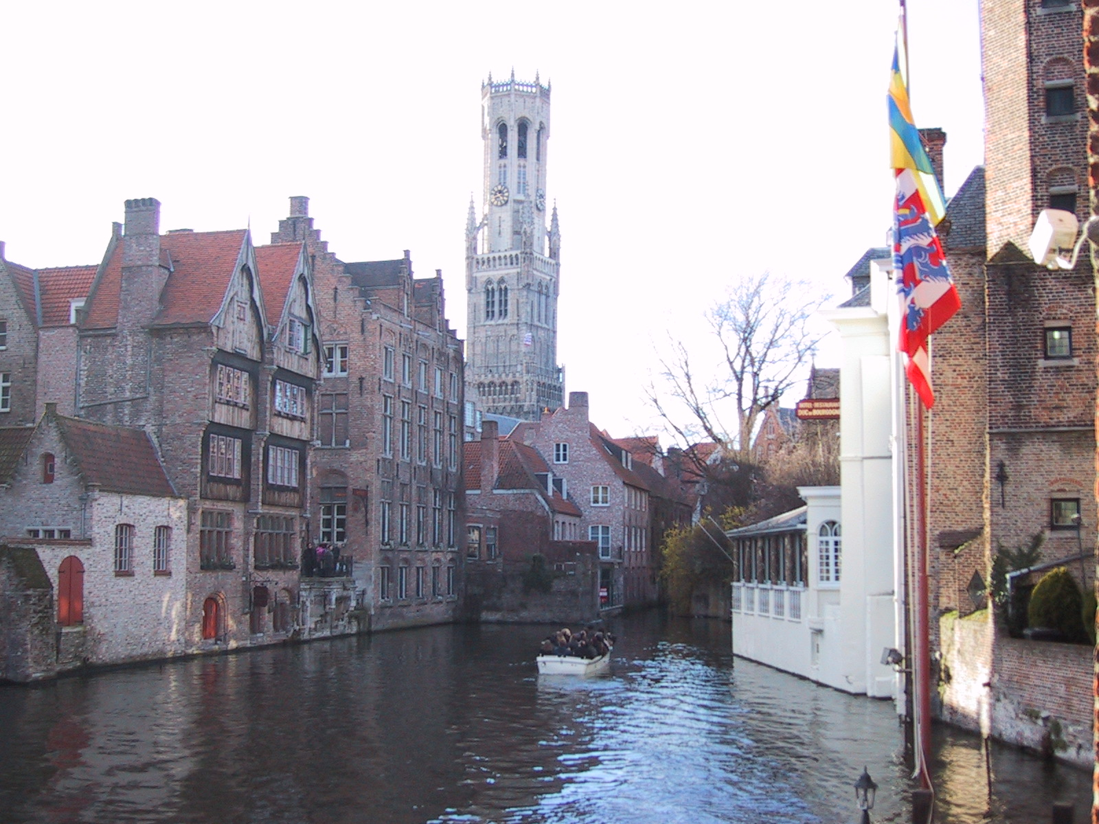 Canal at Rozenhoedkaai, Bruges, Belgium. Photography (c) 2002 Zubro (image by myself).